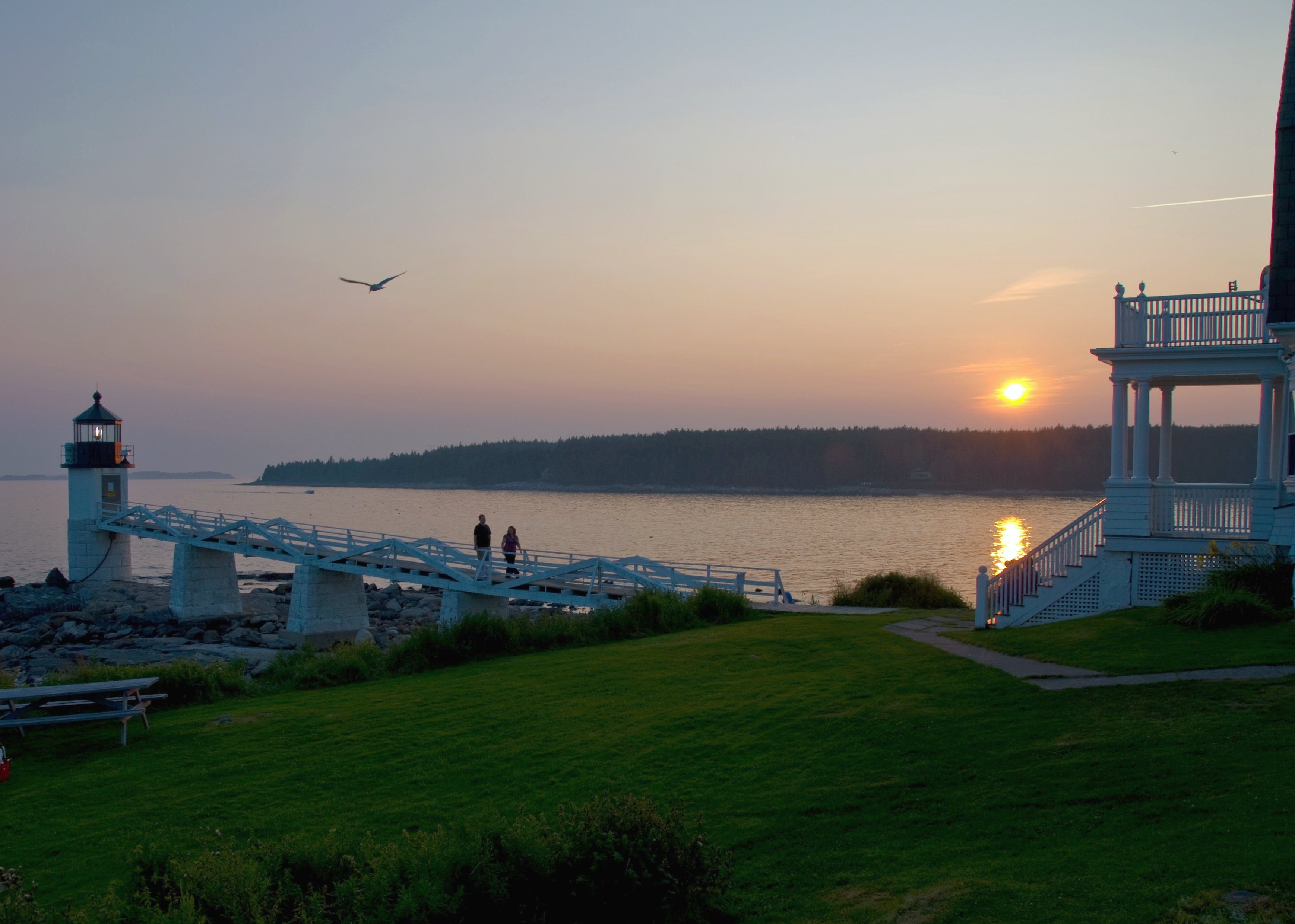 Sunset at Marshall Point Lighthouse. Port Clyde, Maine.